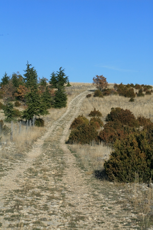 road on the top of the "Grand" (tall) Luberon (84), France.